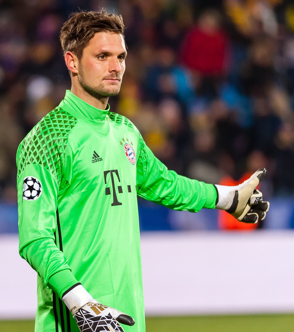 Sven Ulreich with Bayern Munich in a Champions League game against FC Rostov.